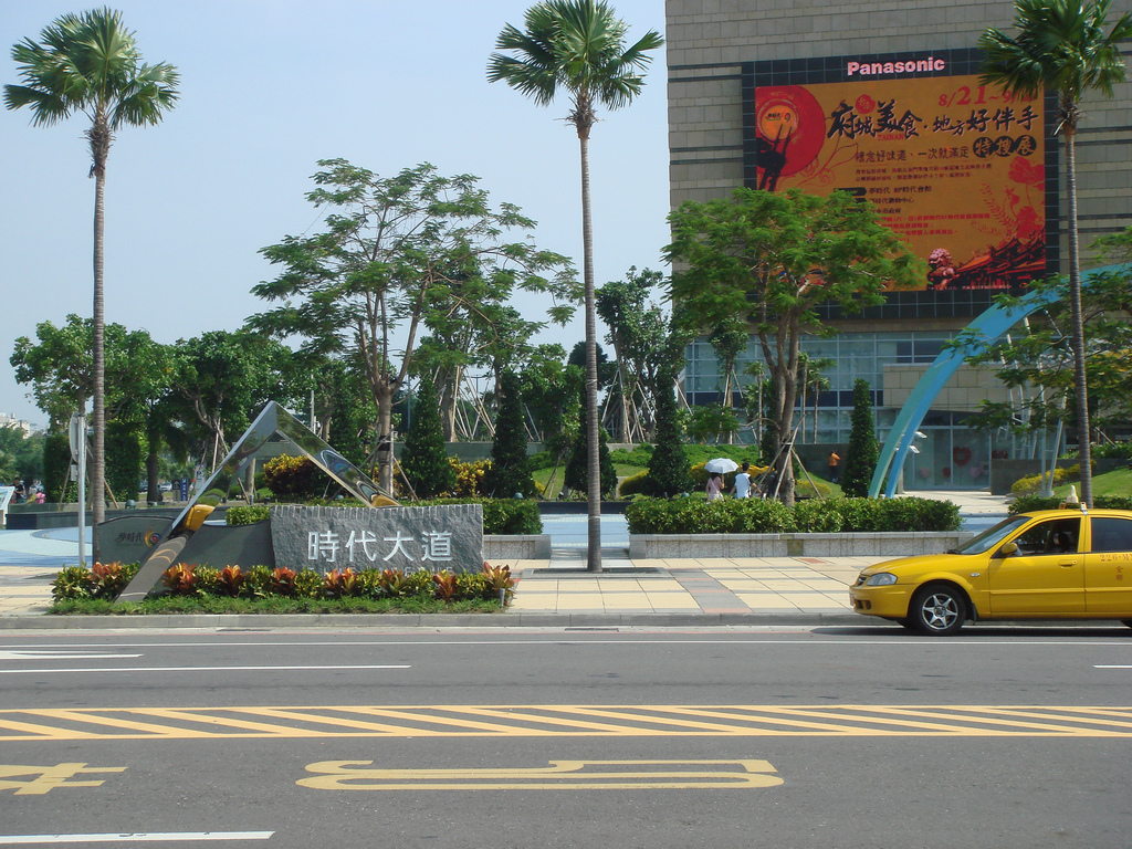 Time Avenue, Kaohsiung City.